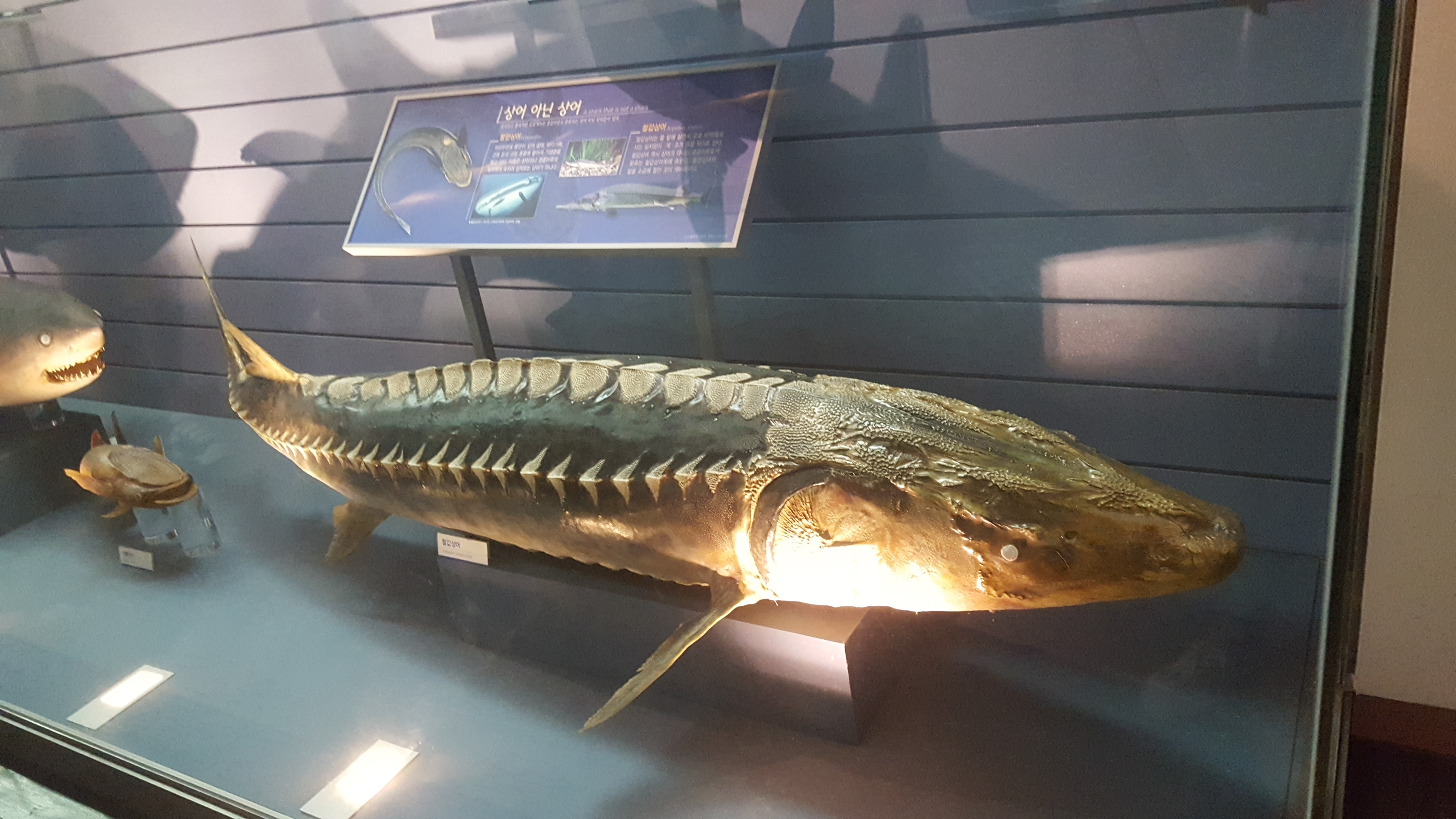 Chinese sturgeon (철갑상어) at Mokpo Natural History Museum